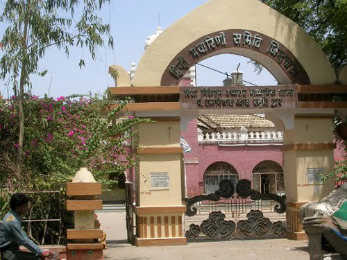 When we enter into Vidya Niketan School Chhindwara